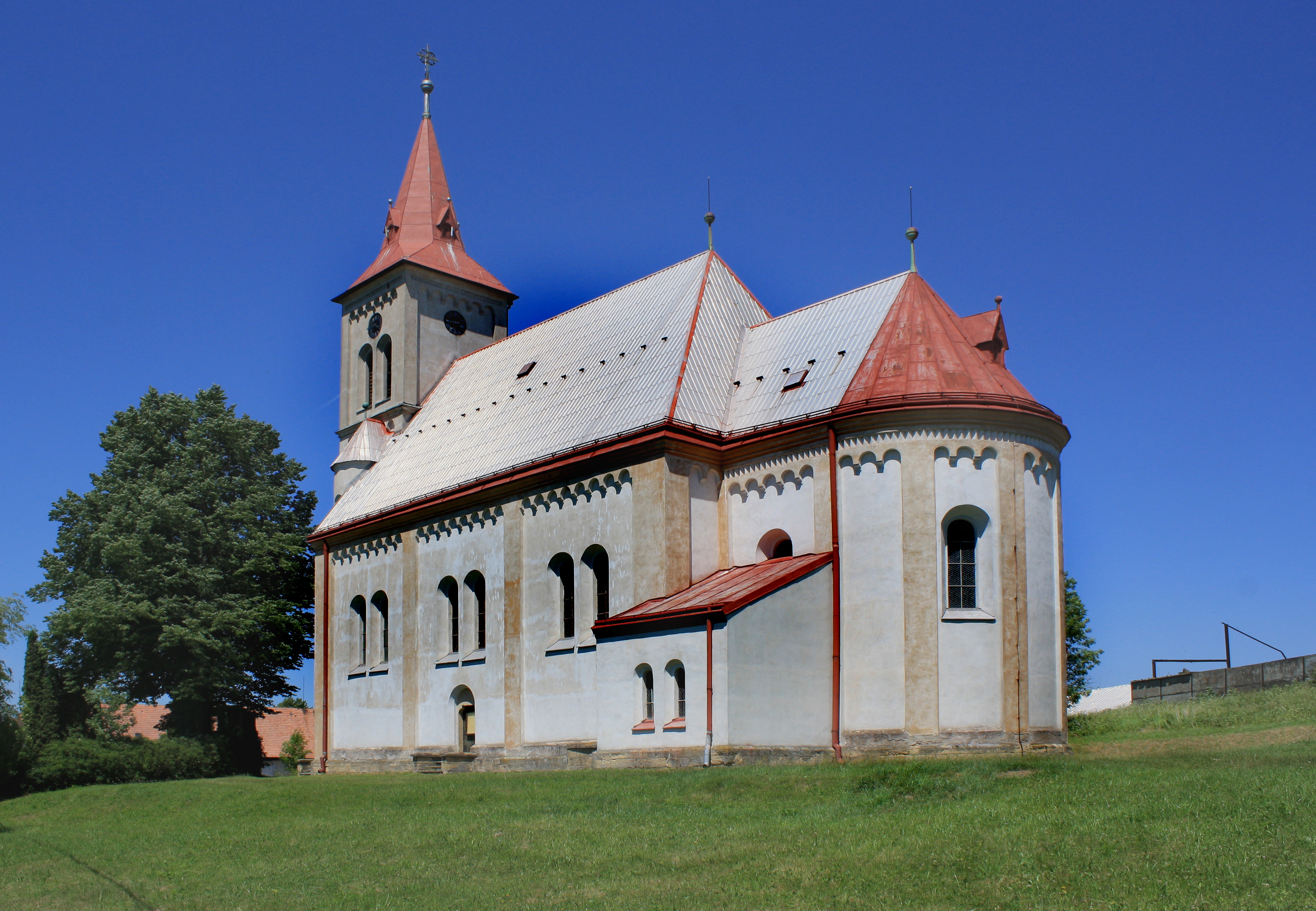 St. Laurence's Church in Květná, Czech Republic